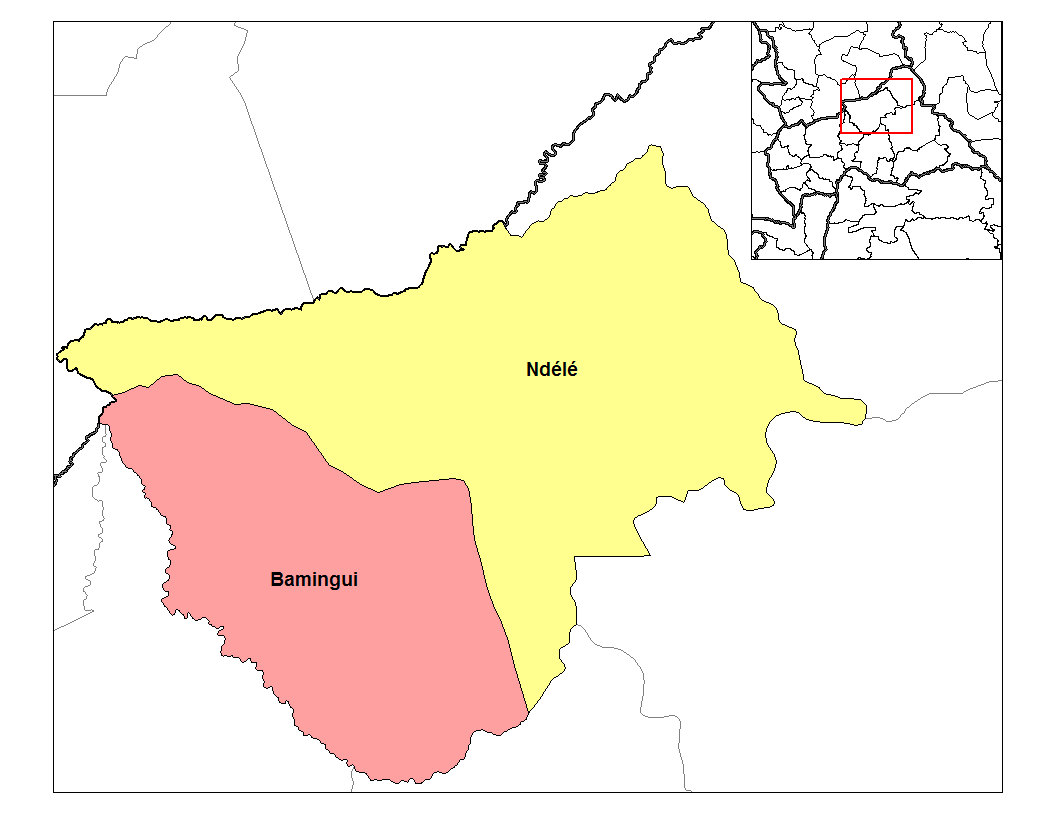 Map of the sub-prefectures of Bamingui-Bangoran prefecture of the Central African Republic. Created by Rarelibra 19:11, 31 August 2006 (UTC) for public domain use, using MapInfo Professional v8.5 and various mapping resources.